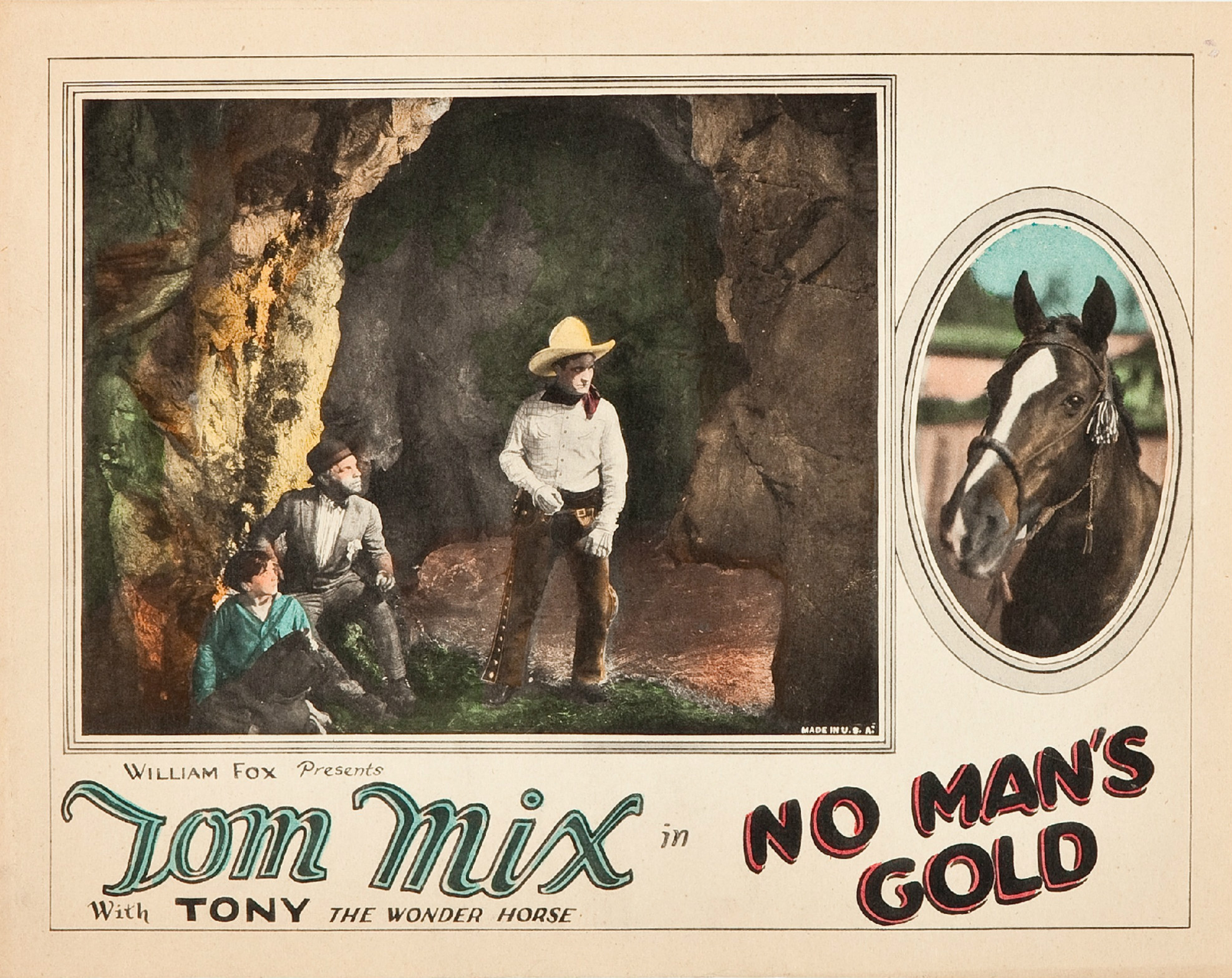 Lobby card for the American western film No Man's Gold (1926).